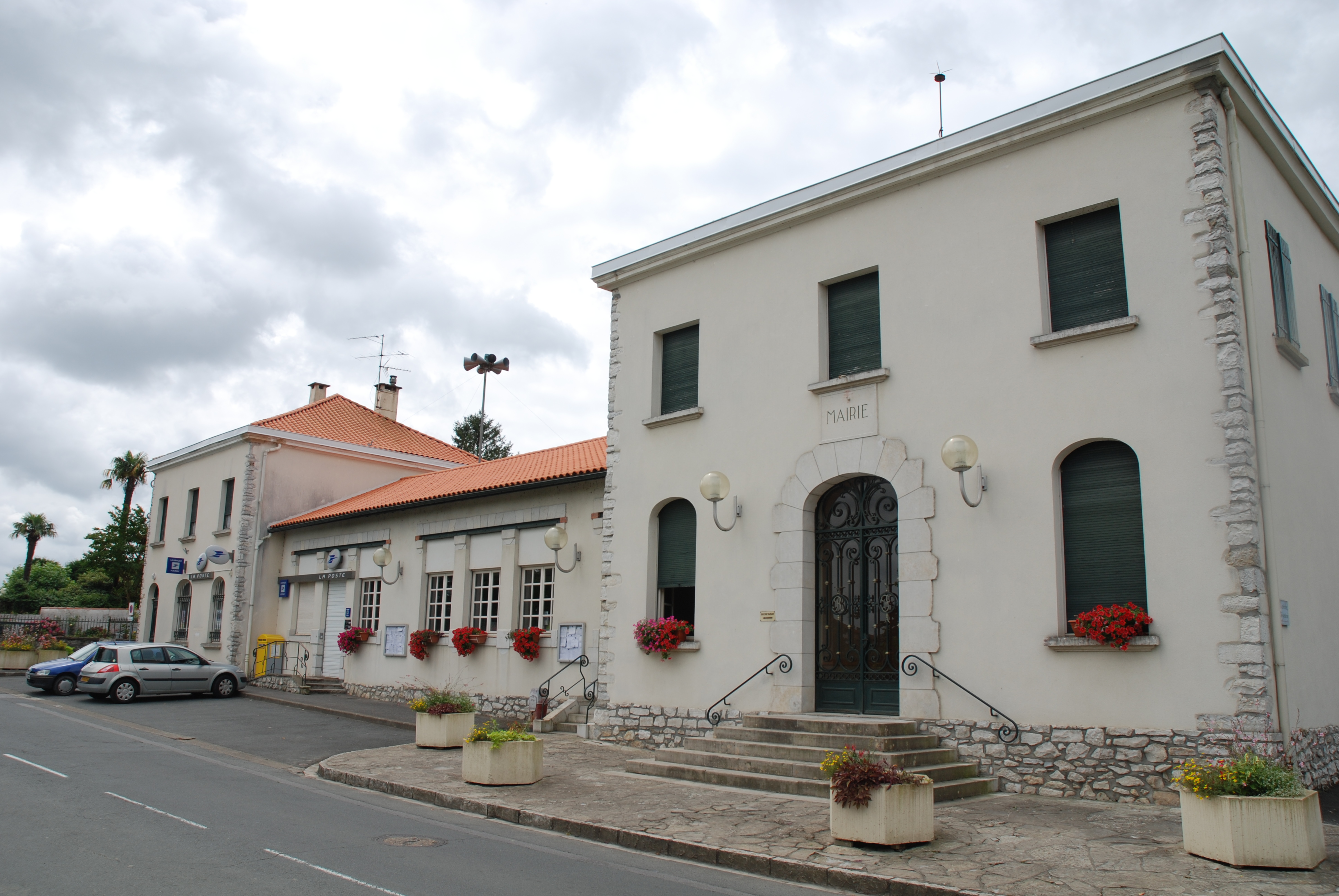 Townhall of Urt, France